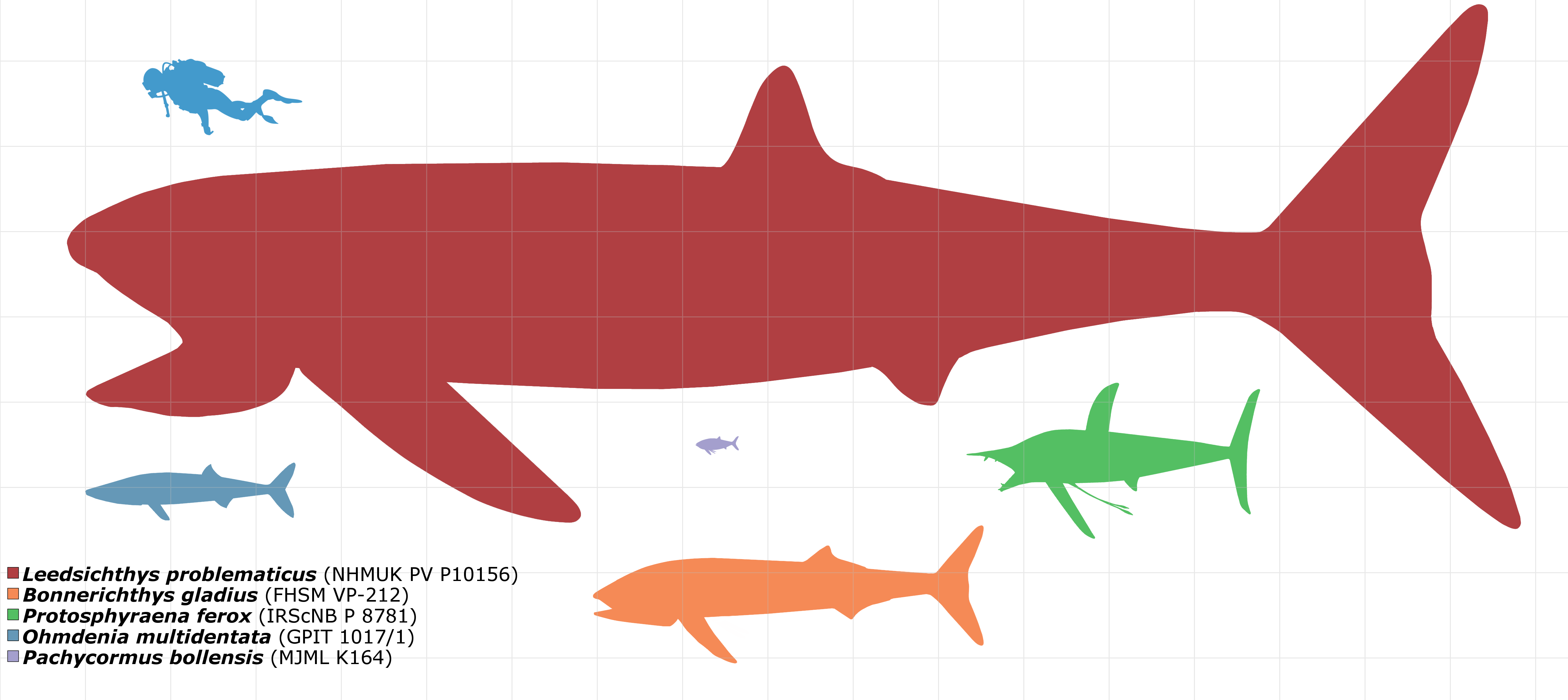 an assortment of the different forms present in Pachycormid fish, each scaled from specimens (noted in picture + colour coded)